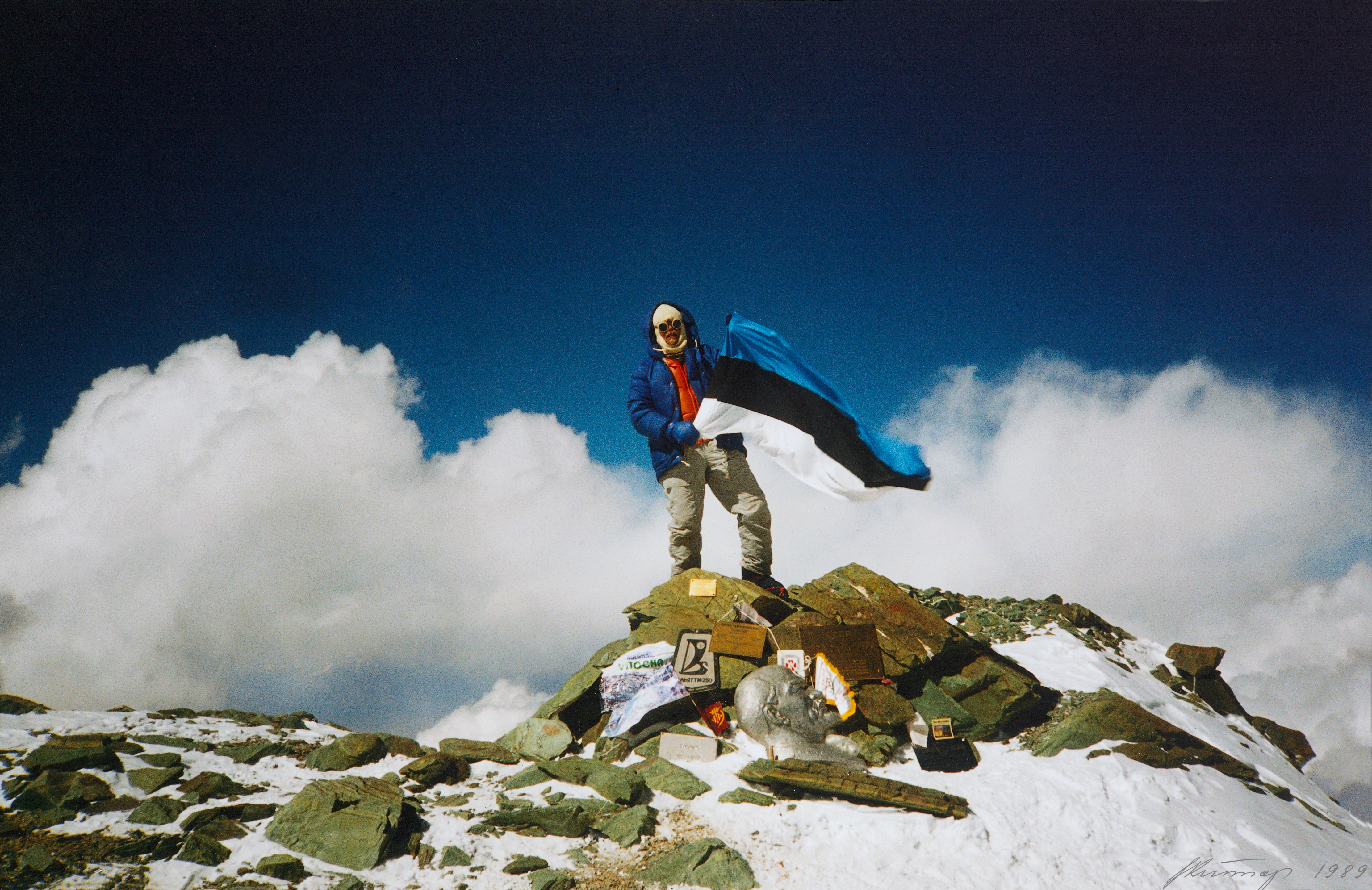 Lenin Peak (7134 m). First time when Estonian flag reached over 7000 m (at the time Estonia was still occupied and the use of Estonian flag was actually illegal; 1989 was the first year when the use of national flag once again became widespread). Man with a flag is Jaan Künnap (also a photographer). But the first time when Estonians reached to the top of Lenin Peak was already in 1965.